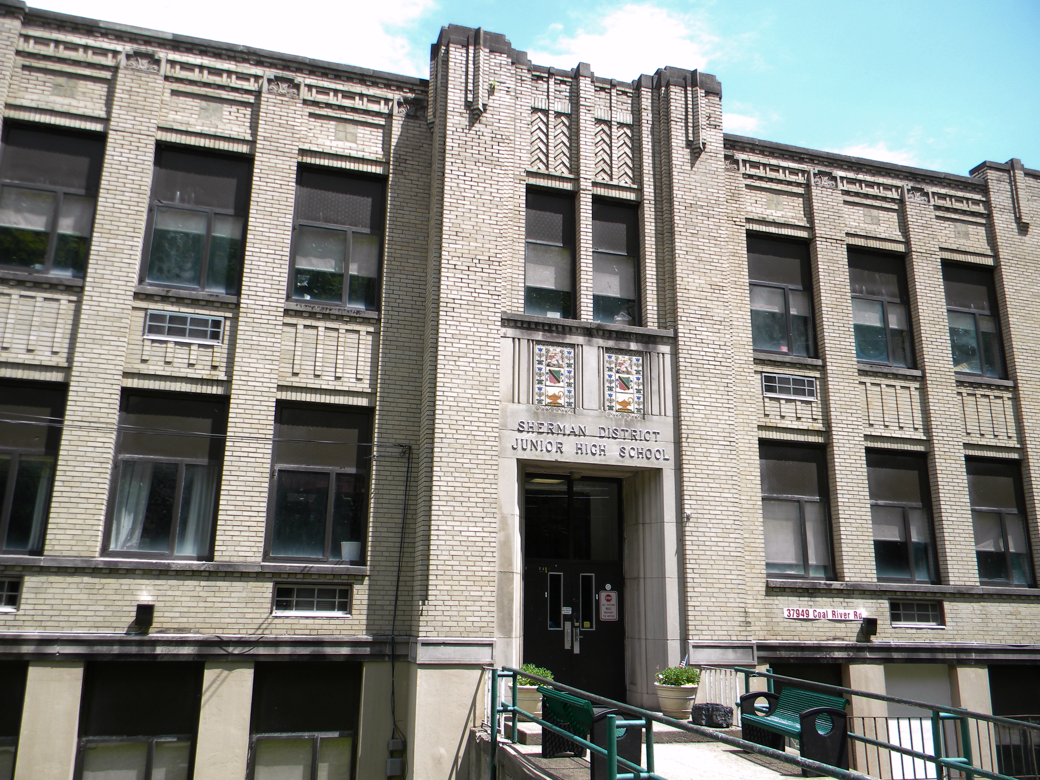 Sherman Middle School